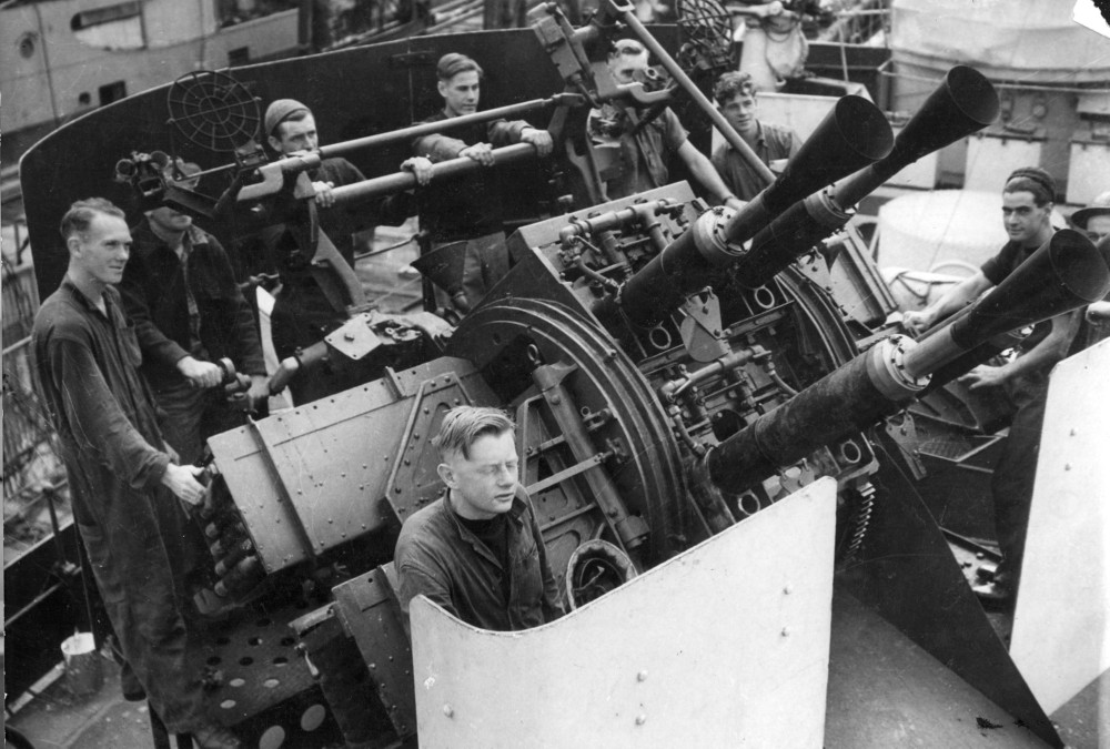 "Pom-pom gun crews on H.M.A.S. Napier".